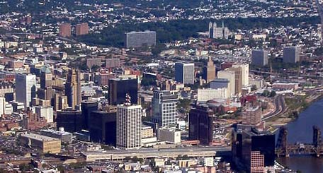 Skyline of Newark, New Jersey with an aerial view, looking northwest.